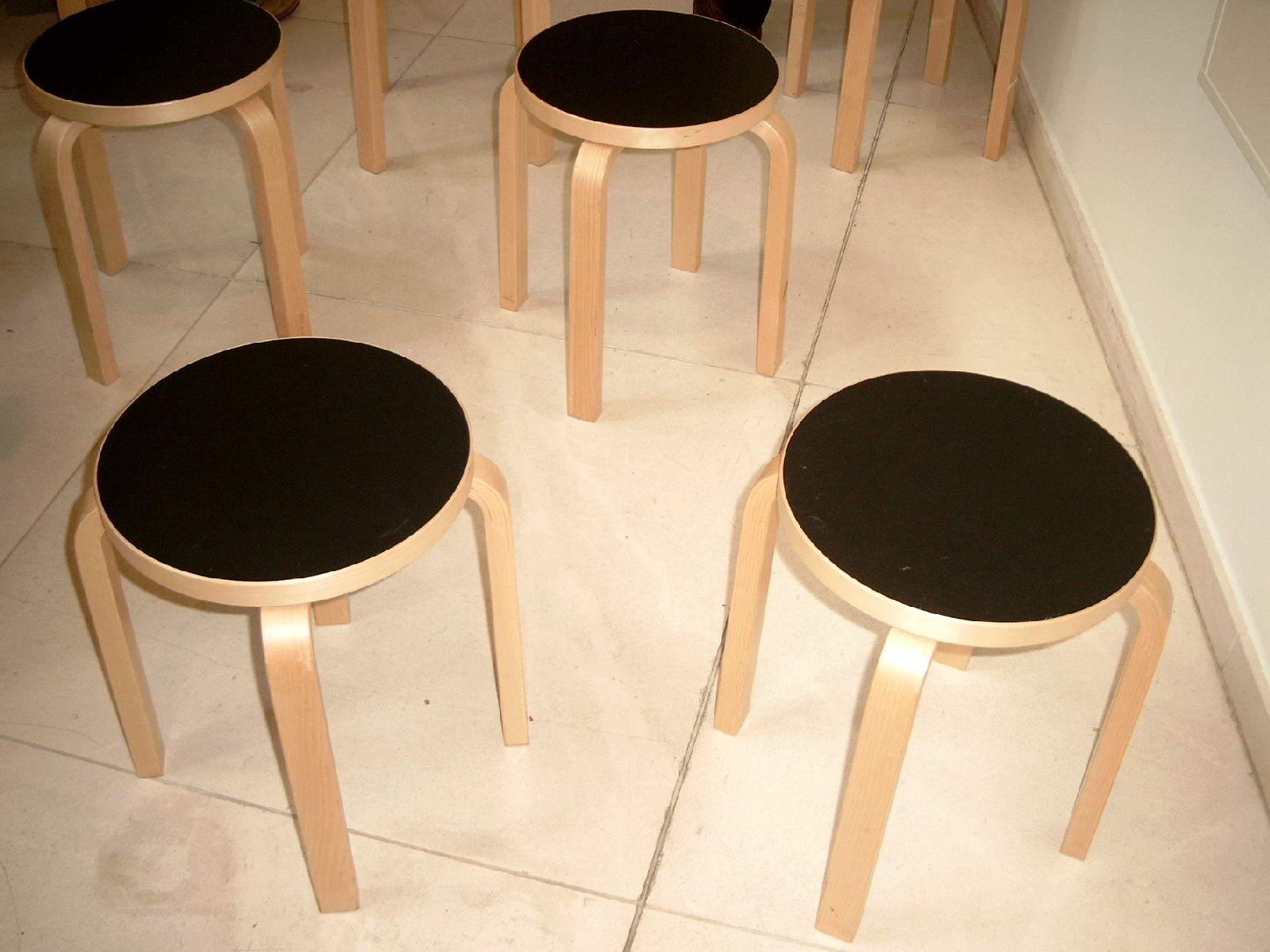 Stools by Alvar Aalto Alvar Aalto (1898–1976) Alternative names Aruvā Āruto; Hugo Alvar Henrik AaltoDescriptionFinnish architect, designer and urban plannerDate of birth/death 3 February 1898 11 May 1976Location of birth/death Kuortane HelsinkiAuthority control : Q82840 VIAF: 71410602 ISNI: 0000 0001 0913 6025 ULAN: 500002617 LCCN: n79018877 NLA: 35776752 WorldCat creator QS:P170,Q82840